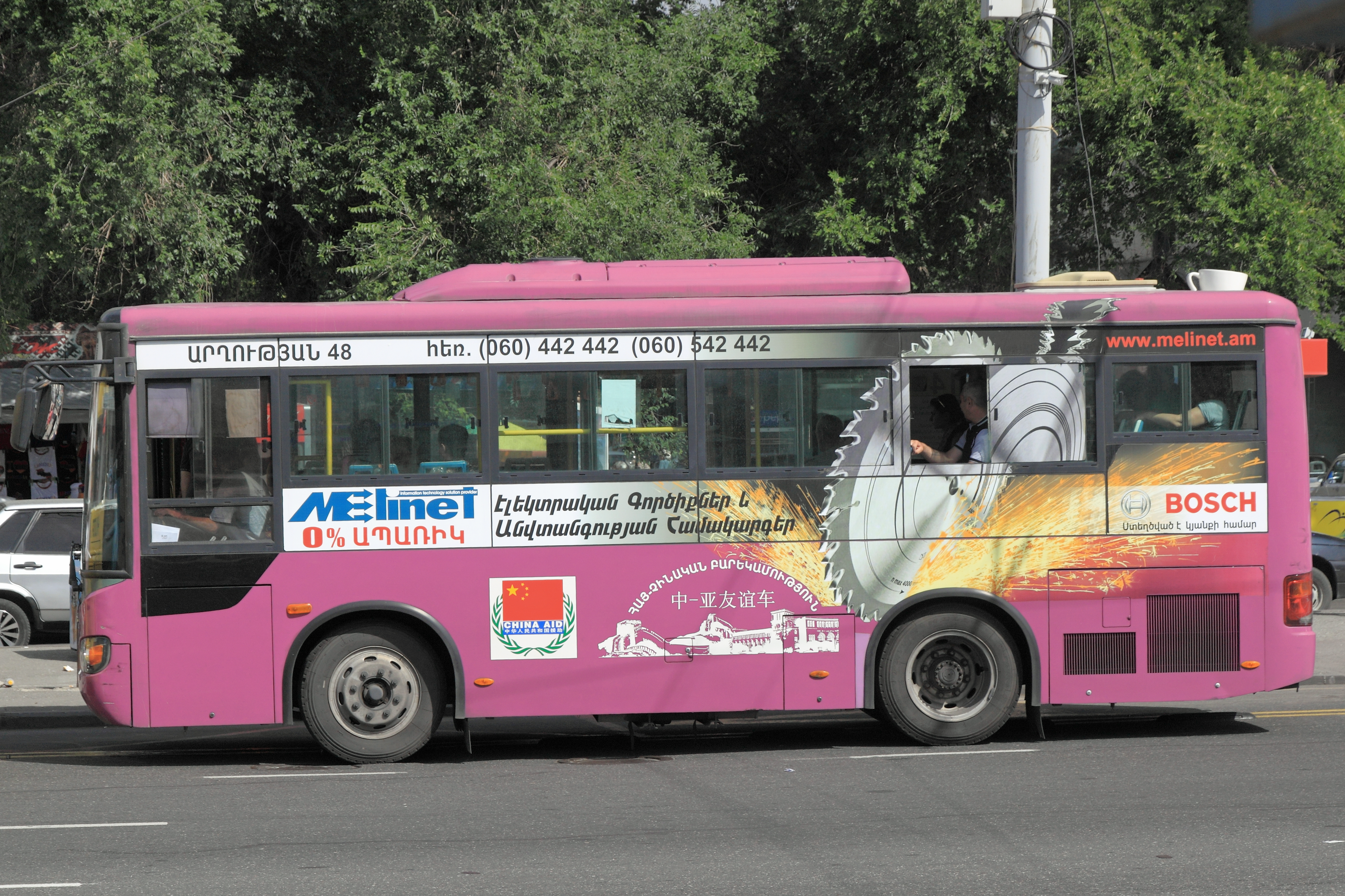 The bus in the center of the capital. Yerevan, Armenia.